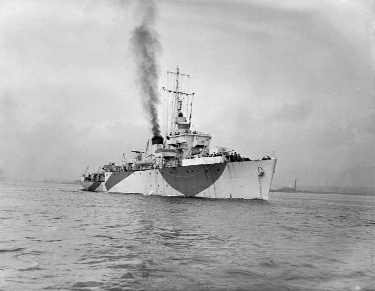 HMS Vestal Underway.